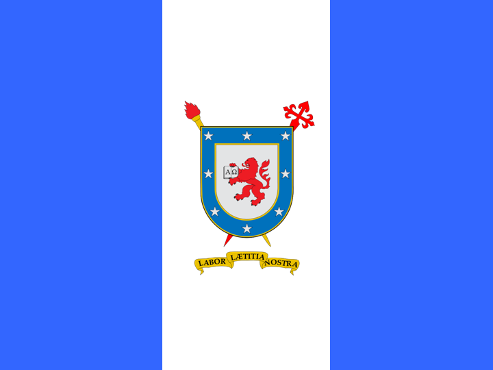 Flag of the University of Santiago (Chile)